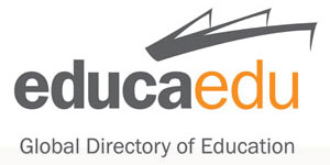 Educaedu Logo